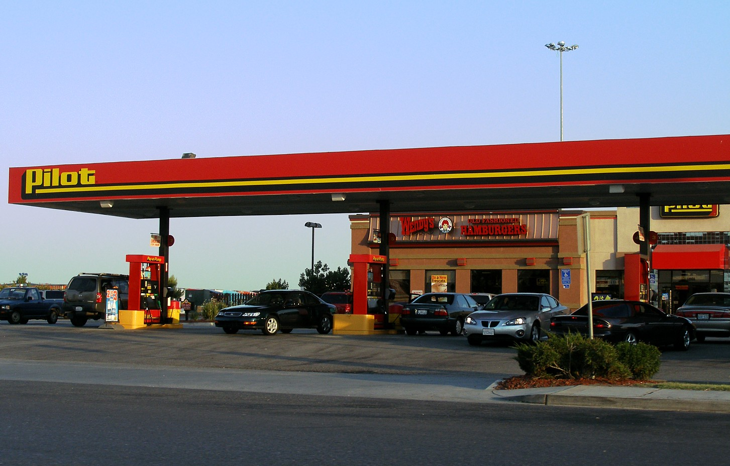 A Pilot Travel Center in Lost Hills. Photographed by user Coolcaesar on June 23, 2006.